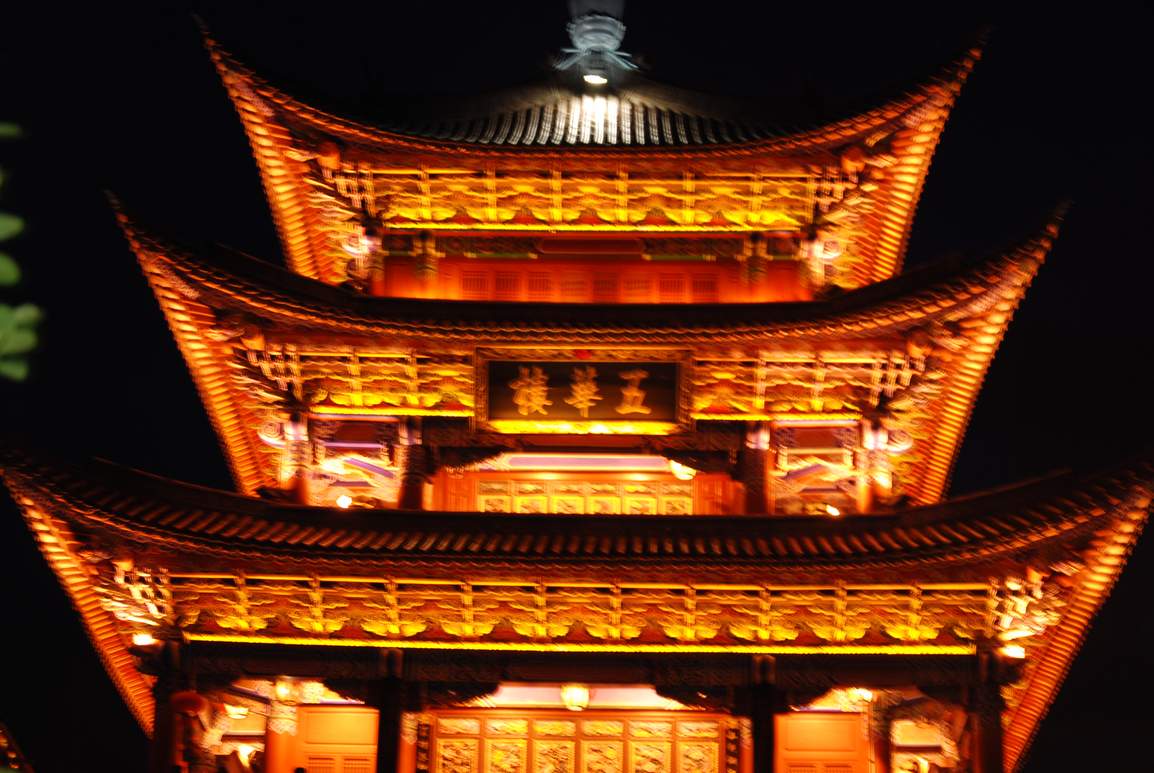 Front gate at old city Dali.